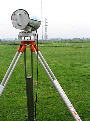 Picture of a Scintillometer (transmitter), a scientific device used to measure small fluctuations of the refractive index of air caused by variations in temperature, humidity, and pressure. Model shown: Large Aperture Scintillometer, by Kipp & Zonen.